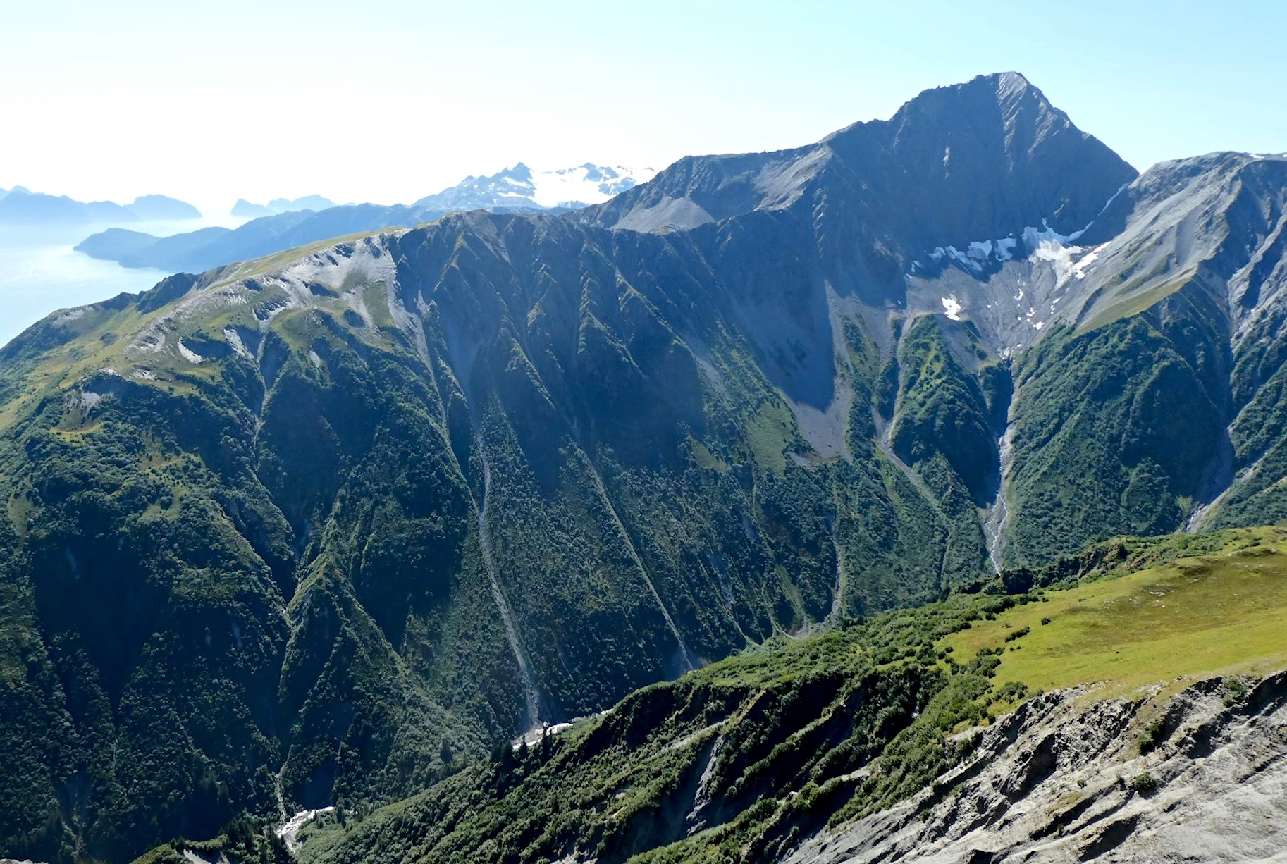 Looking up Lowell Creek Valley at Bear Mountain from Marathon Mountain